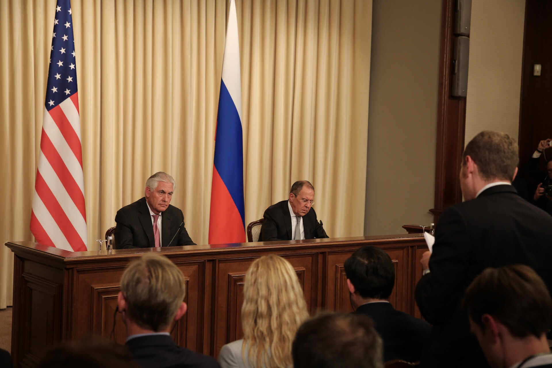 U.S. Secretary of State Rex Tillerson listens as Josh Lederman of the Associated Press asks a question during a joint press conference with Russian Foreign Minister Lavrov in Moscow, Russia, on April 12, 2017. [State Department photo/ Public Domain]